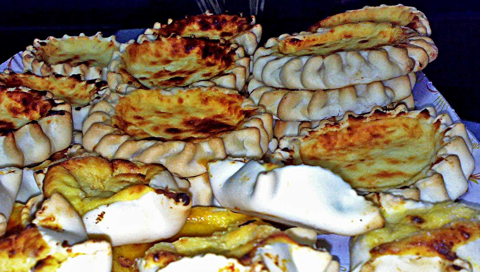 Pardulas, traditional sardinian cake